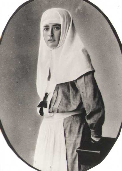 Princess Aneta Andronikashvili